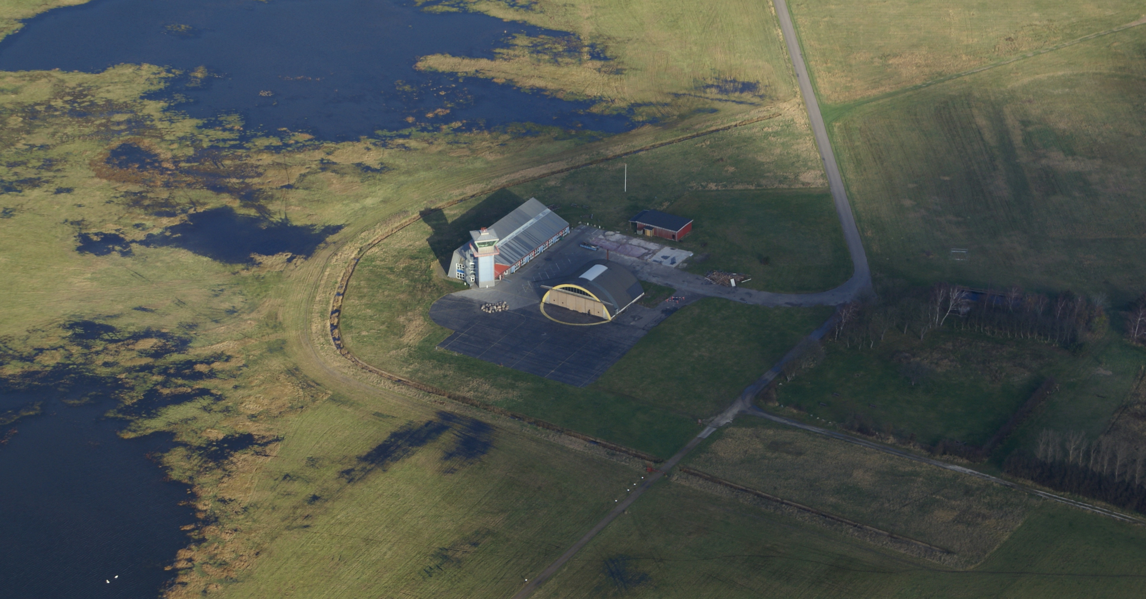 The former airbase Avnø.